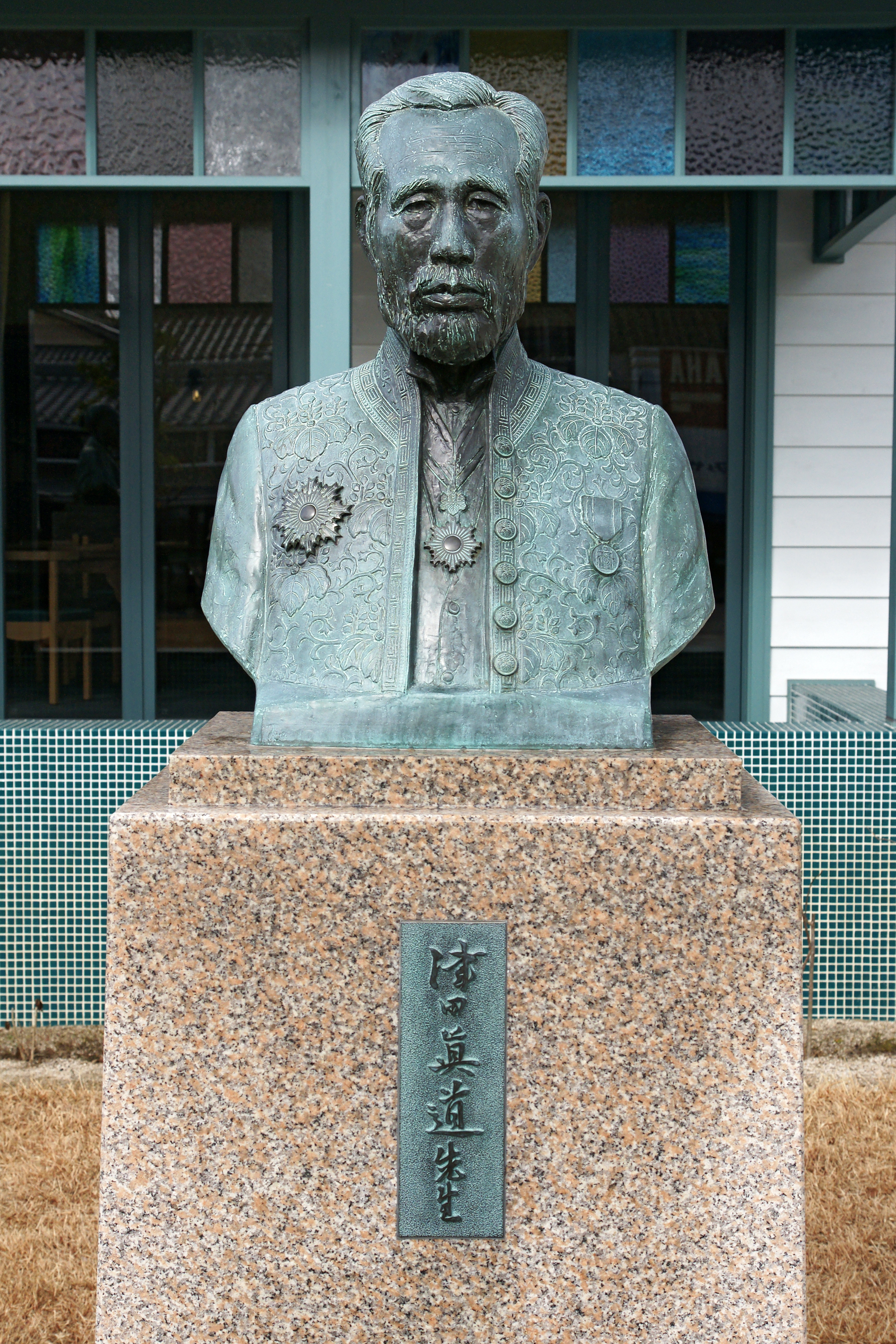 Tsuyama Archives of Western Learning in Tsuyama, Okayama prefecture, Japan.